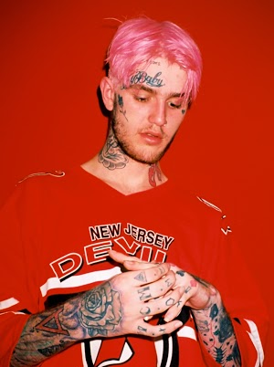 Lil Peep - Image